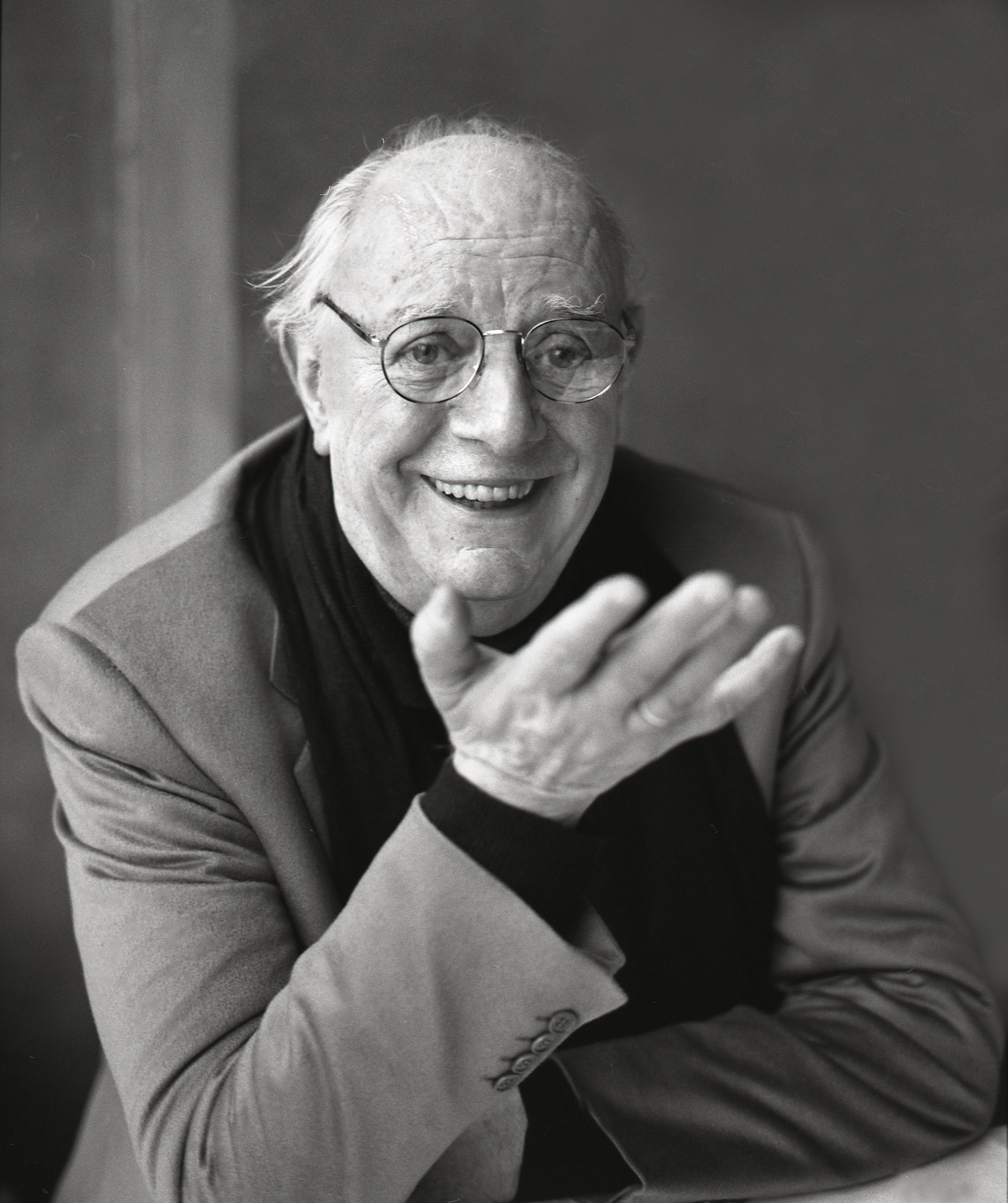 Dario Fo, Italian writer.